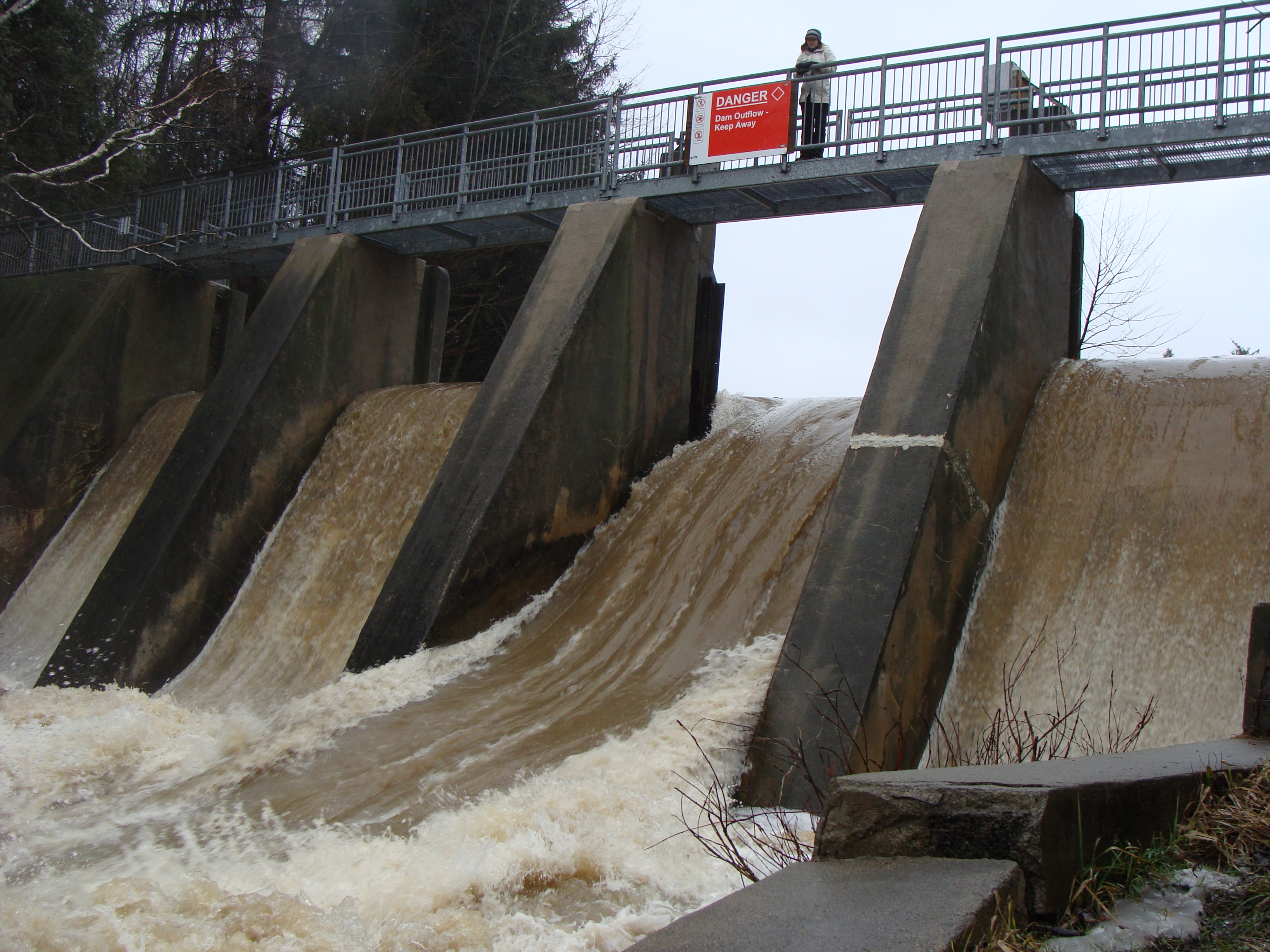 Crooks Hollow Dam on March 14, 2010, when HCA’s measuring station at upstream Christie Conservation Area recorded 67.5 mm of rain